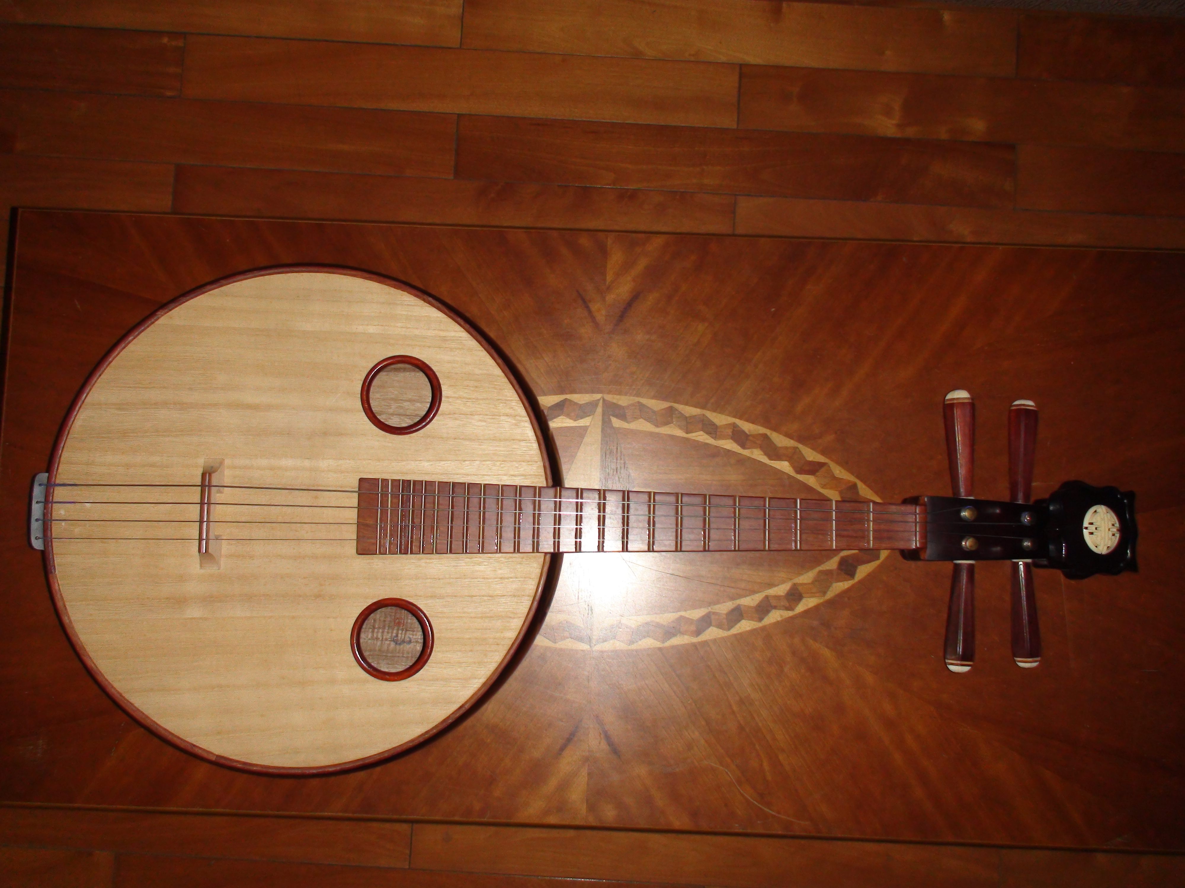 Picture of Ruanjian